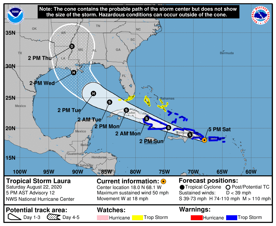 Forecast track for then Tropical Storm Laura at 5 p.m. AST on August 22, 2020